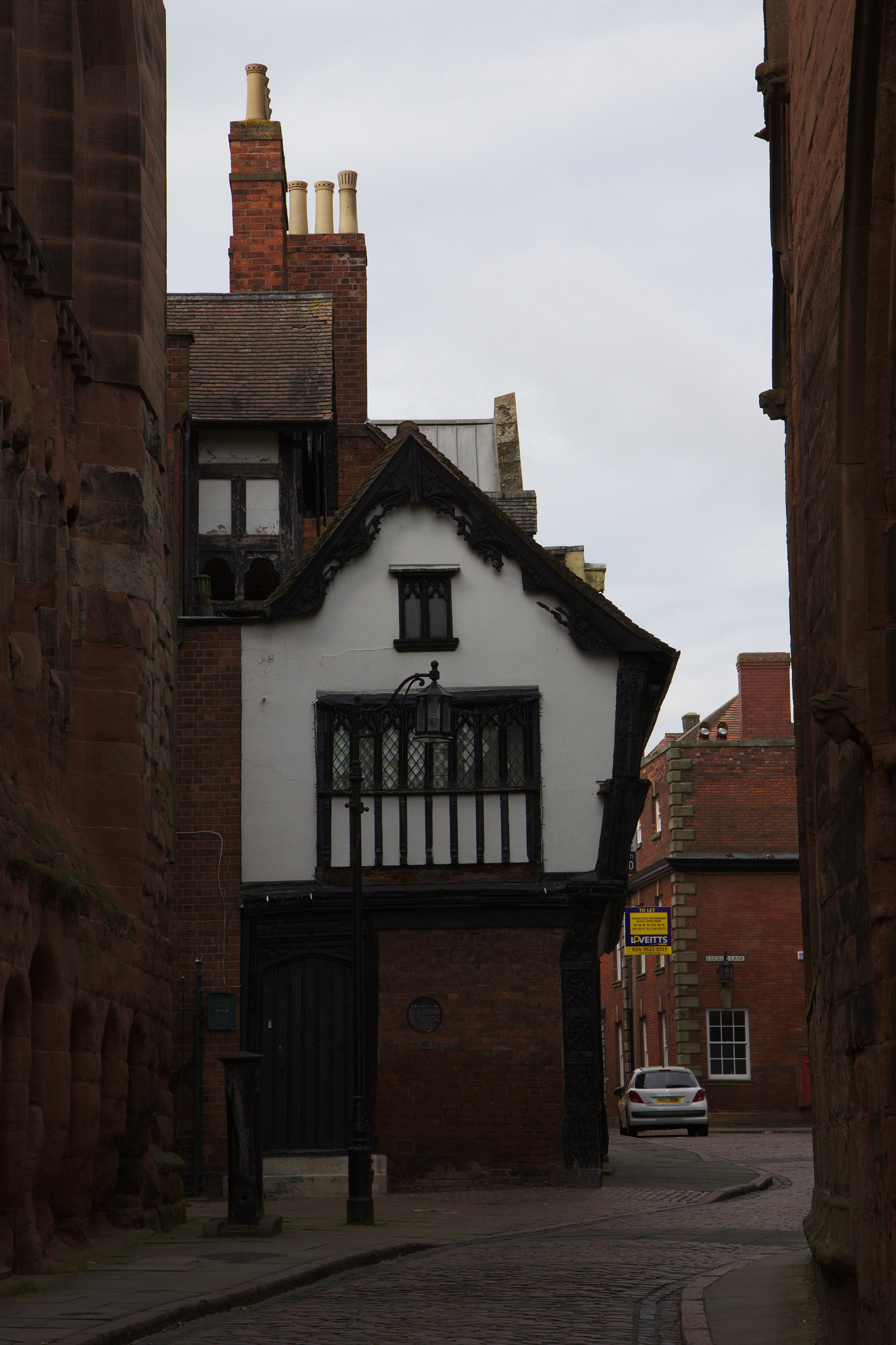 A2 - Bayley Lane in Coventry, UK